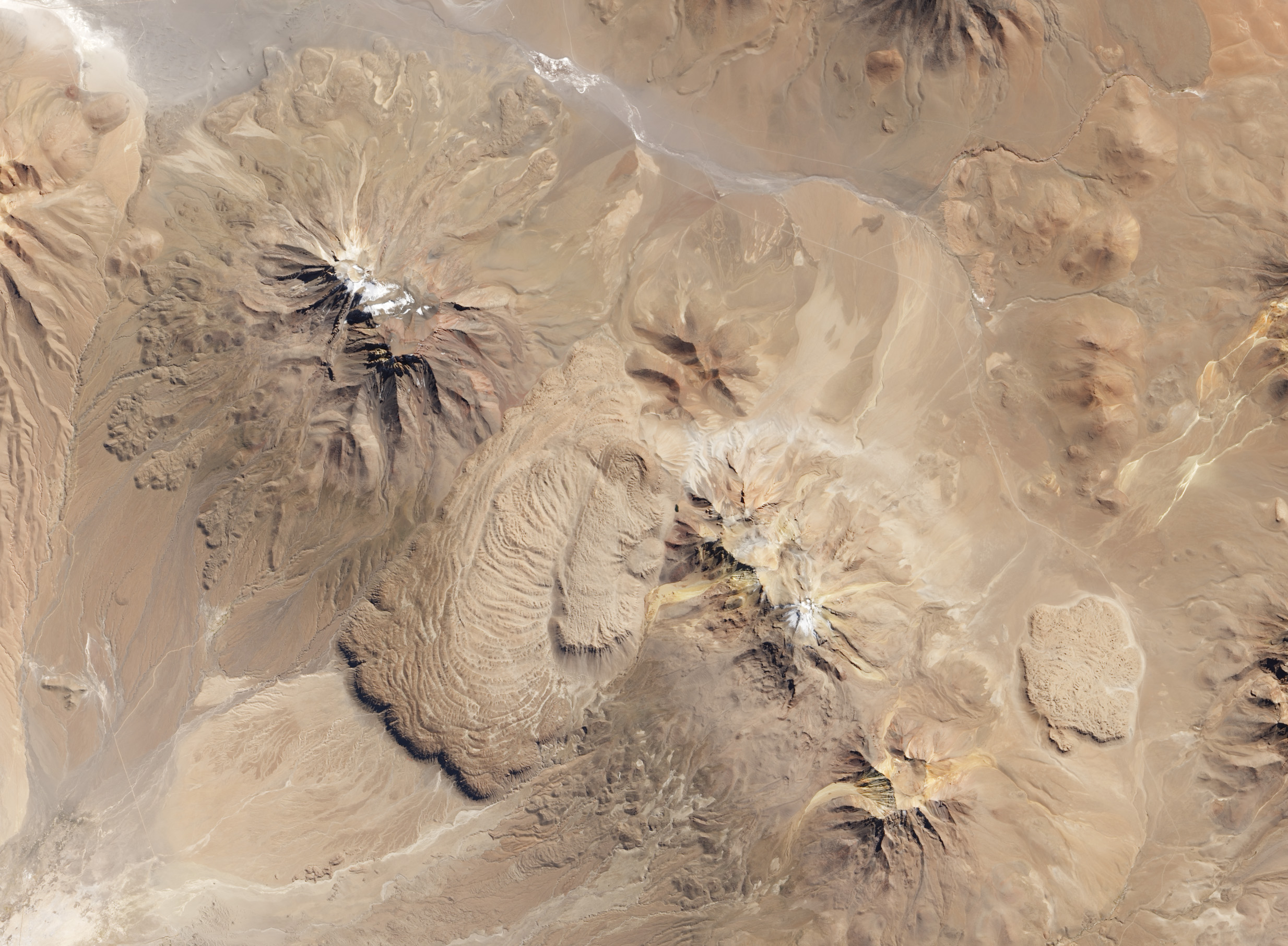 Viscous (or sticky), non-explosive flows produce distinctive landforms known as lava domes. These circular mounds form as lava slowly oozes from a vent and piles up on itself over time. Lava domes tend to have steep, cliff-like fronts at their leading edge and wrinkle-like pressure ridges on their surfaces. The Chao dacite is a type of lava dome known as a coulée. These elongated flow structures form when highly-viscous lavas flow onto steep surfaces.